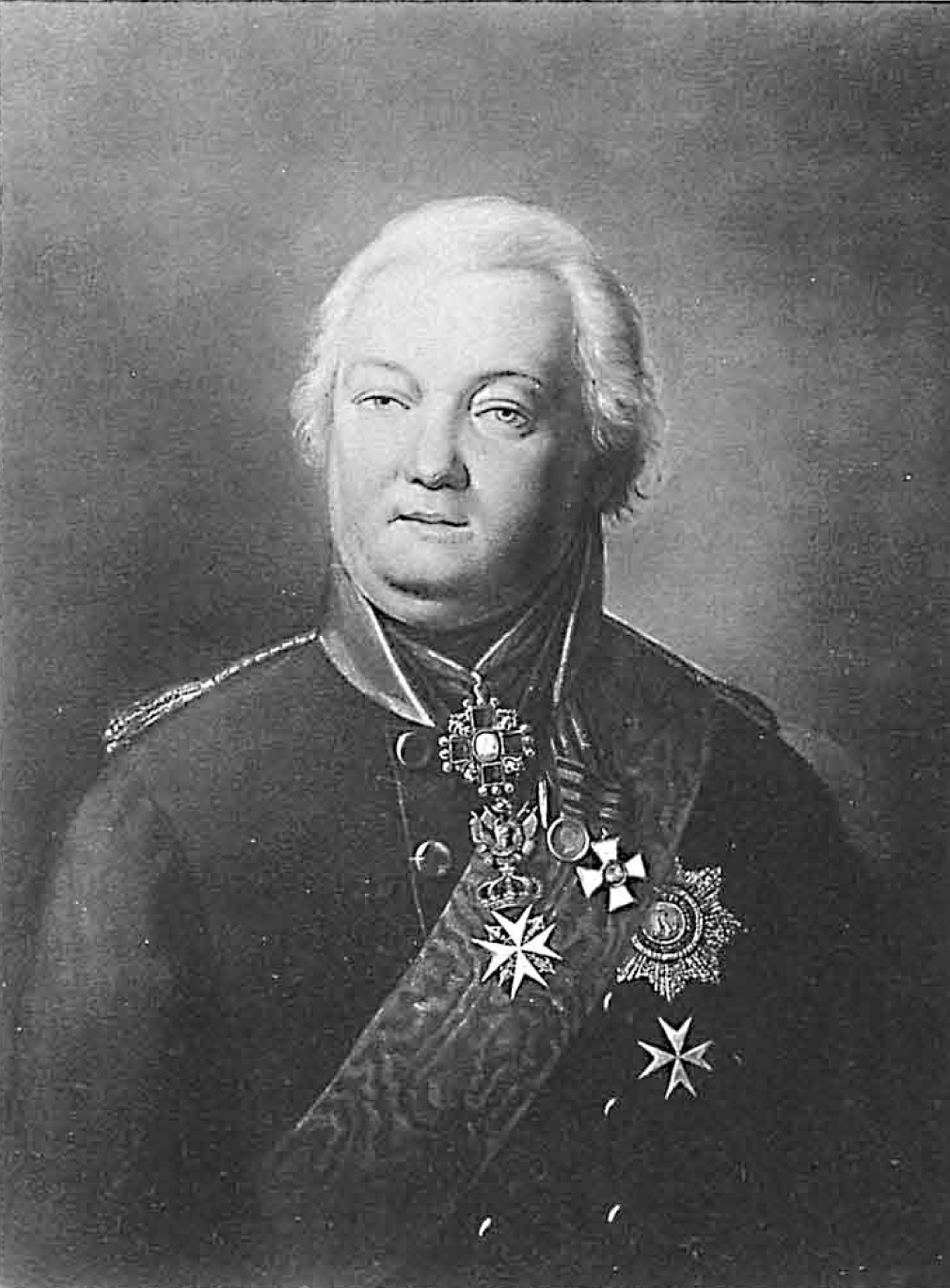 Karl Fedorovich Knorring, 1746-1820